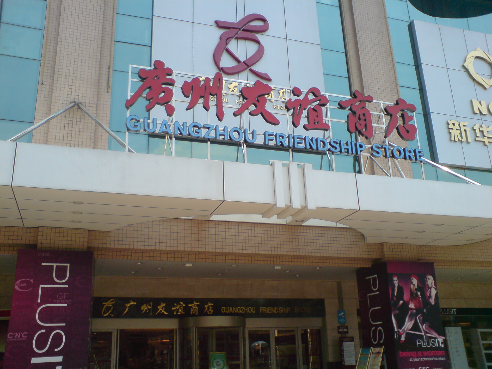 Guangzhou friendship store times square branch 中文（中国大陆）: 广州友谊商店时代广场分店